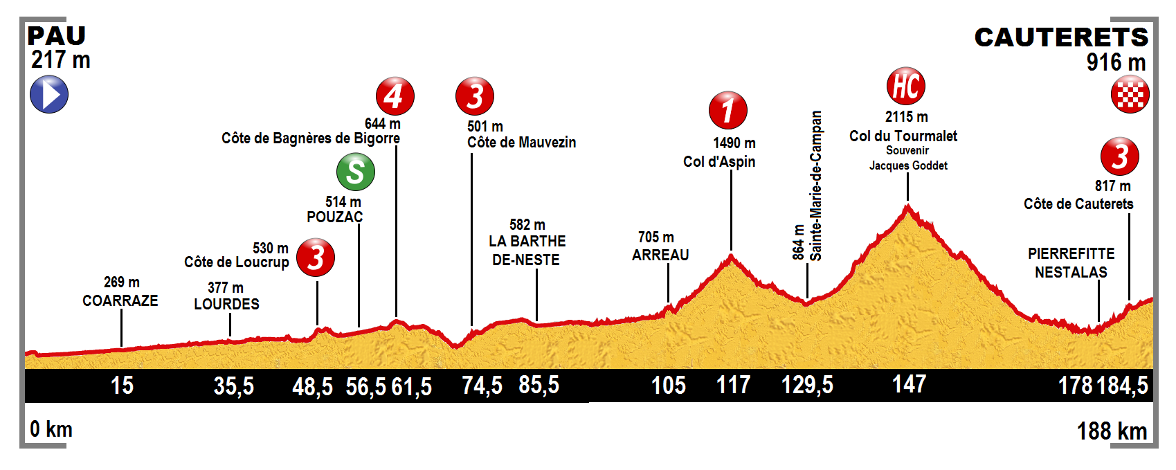 Profile of the 11th stage of the Tour de France 2015